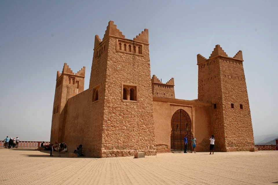 This is an image from Morocco